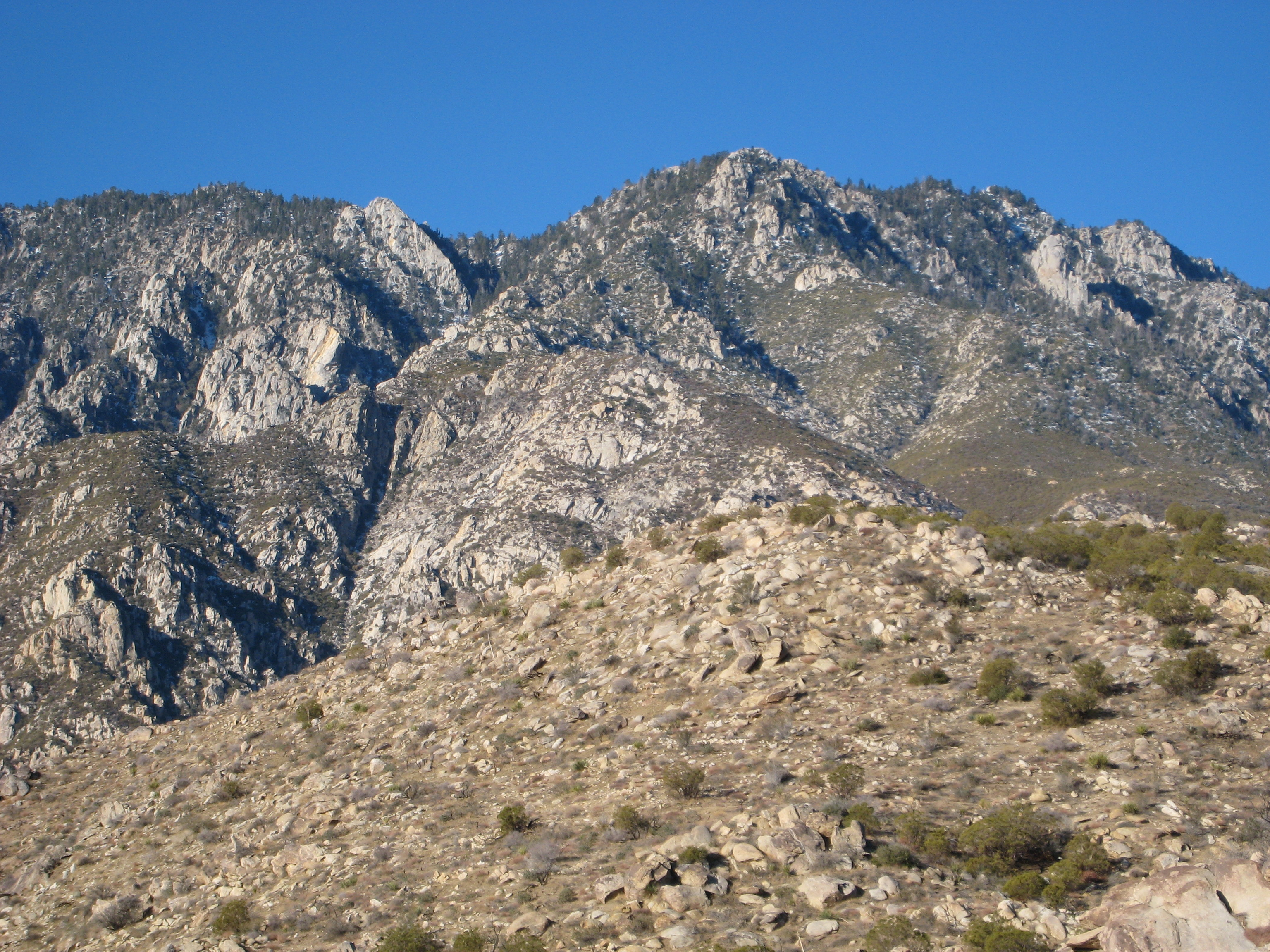 San Jacinto Peak from the east along the Cactus to Clouds Trail